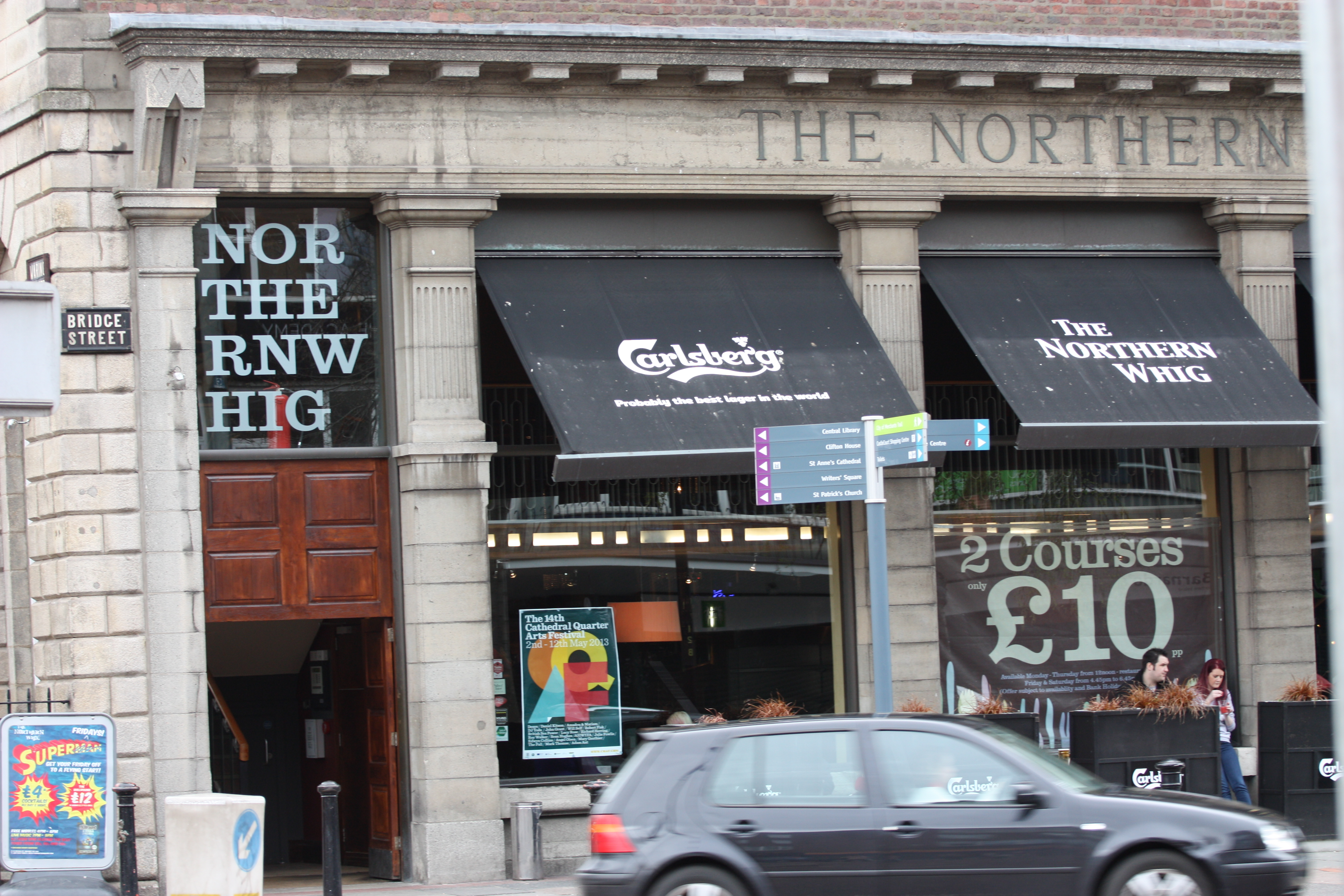 Northern Whig restaurant, Bridge Street, Belfast, Northern Ireland, May 2013